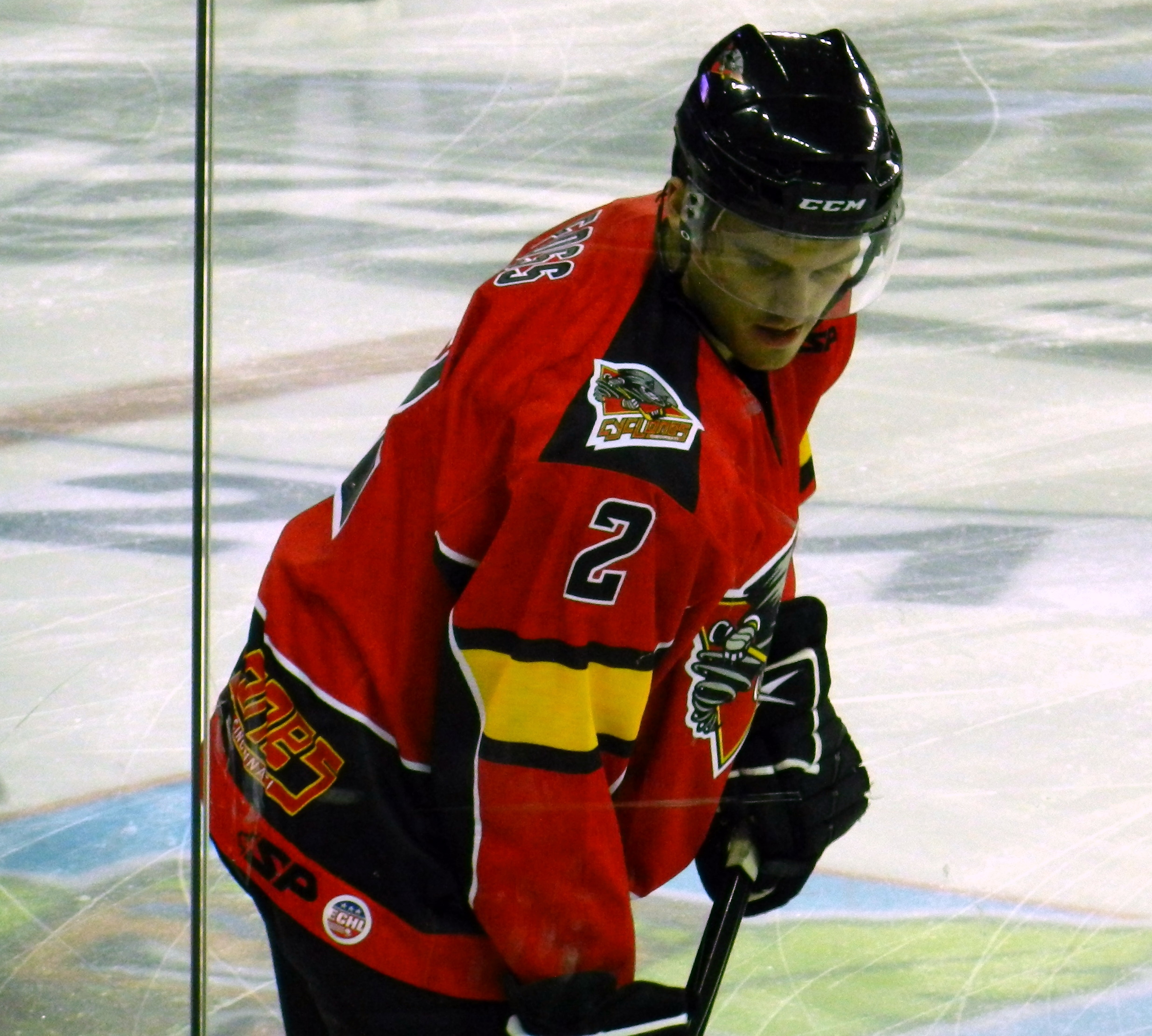 Jeff Foss playing for the Cincinnati Cyclones during the 2011-12 ECHL season